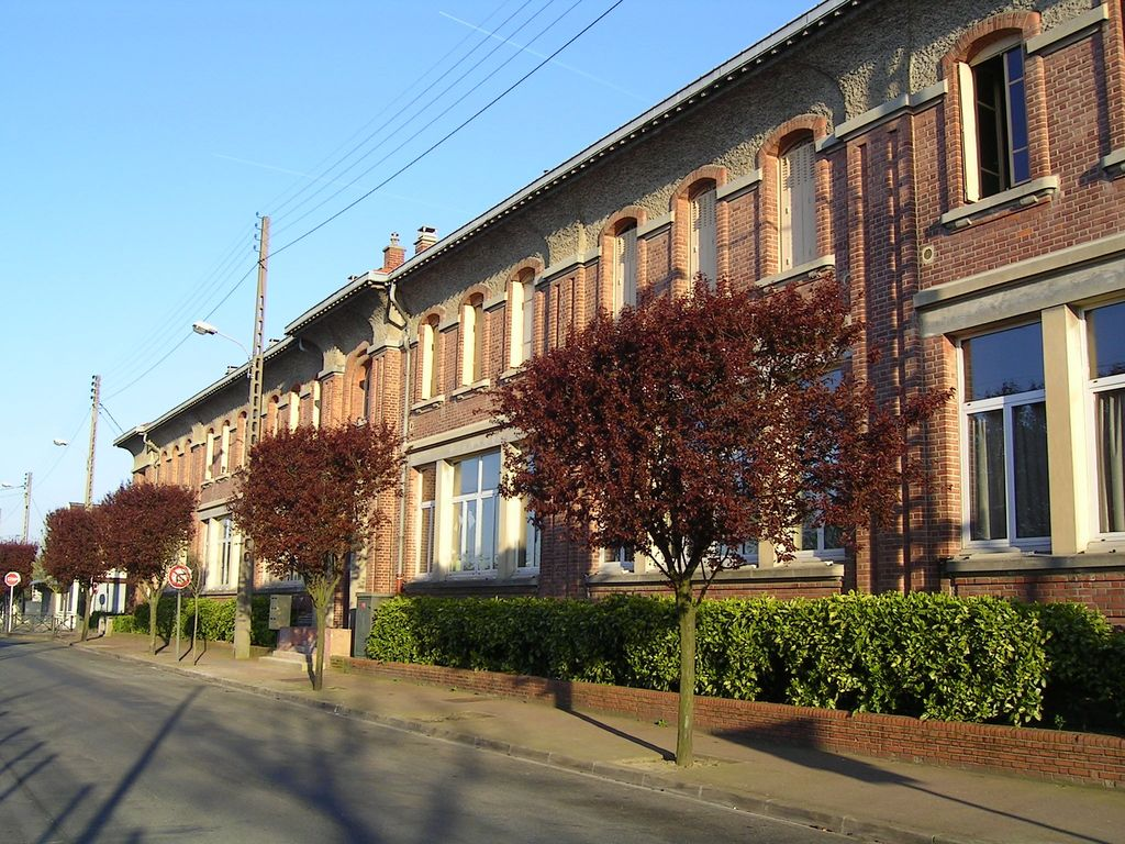 Ecole Primaire Jean Jaurès, rue de Reims, Vert-Galant District